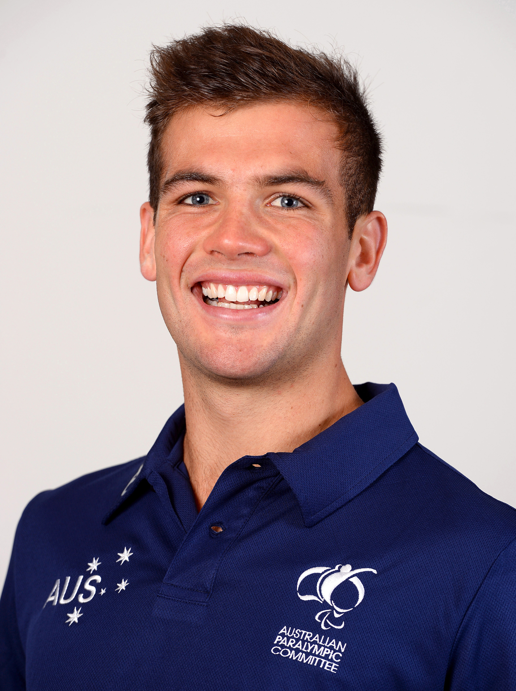 Portrait photograph of Deon Kenzie taken at team processing session for shadow members of 2016 Australian Paralympic team